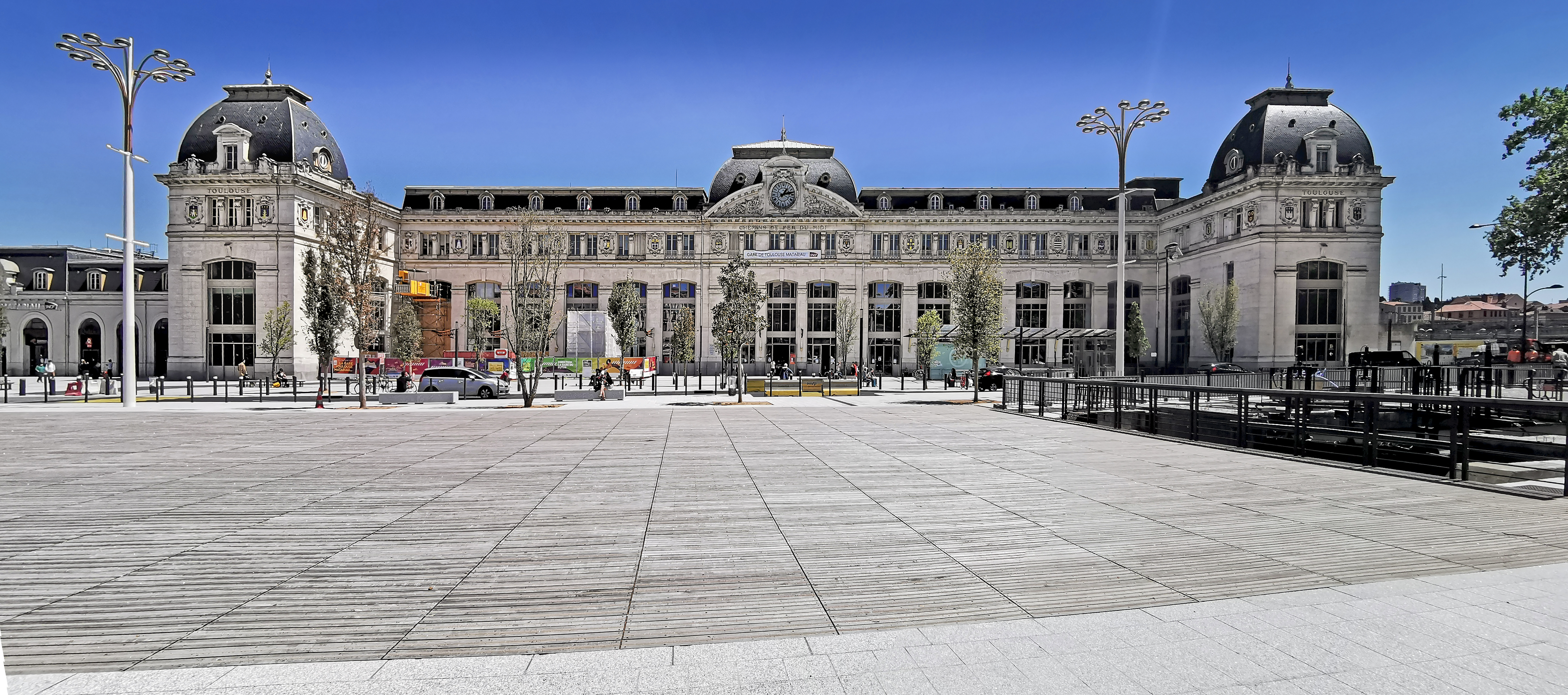 Facade of the Gare de Toulouse-Matabiau by Marius Toudoire – 1903. The Canal forecourt covers the Canal du Midi since February 2020.